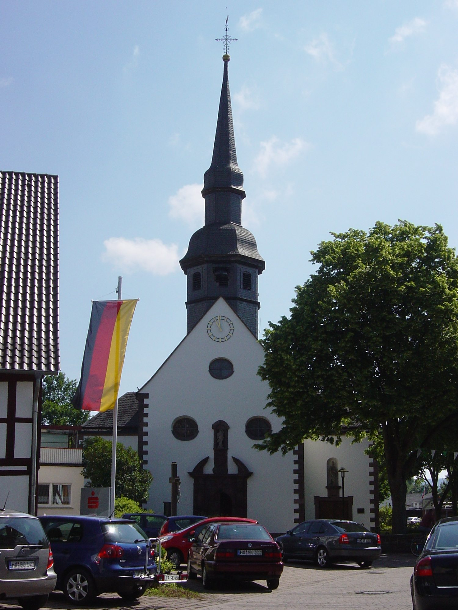 Catholic St. Anna Church in Stahle (Germany)